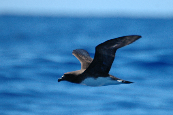 Tahiti Petrel (Pseudobulweria rostrata), off Gold Coast, SE Queensland, Australia